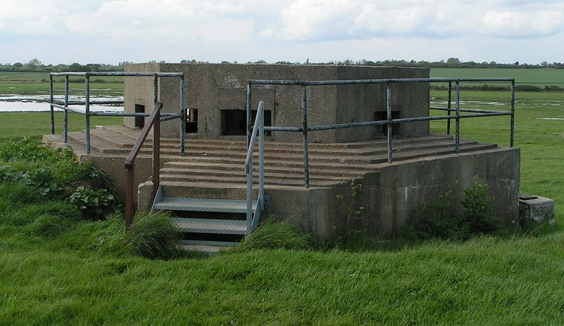 A pillbox on the East coast of England. Photo by sannse, May 2004.